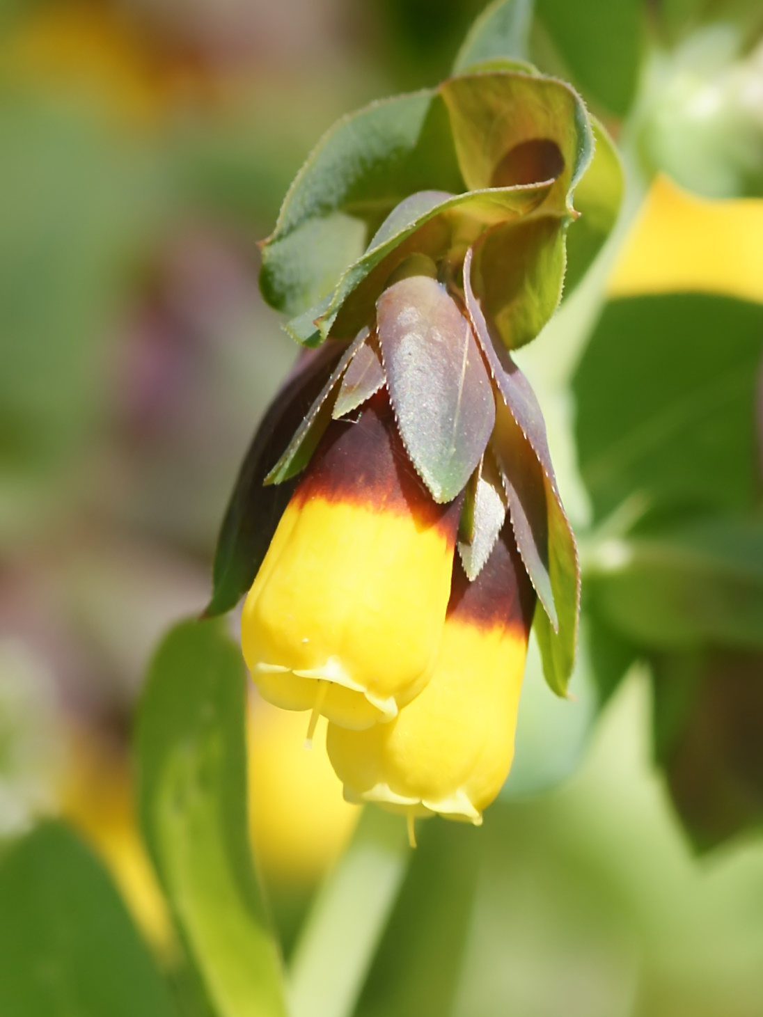 Honeywort near Thiesi, Sardinia, Italy.